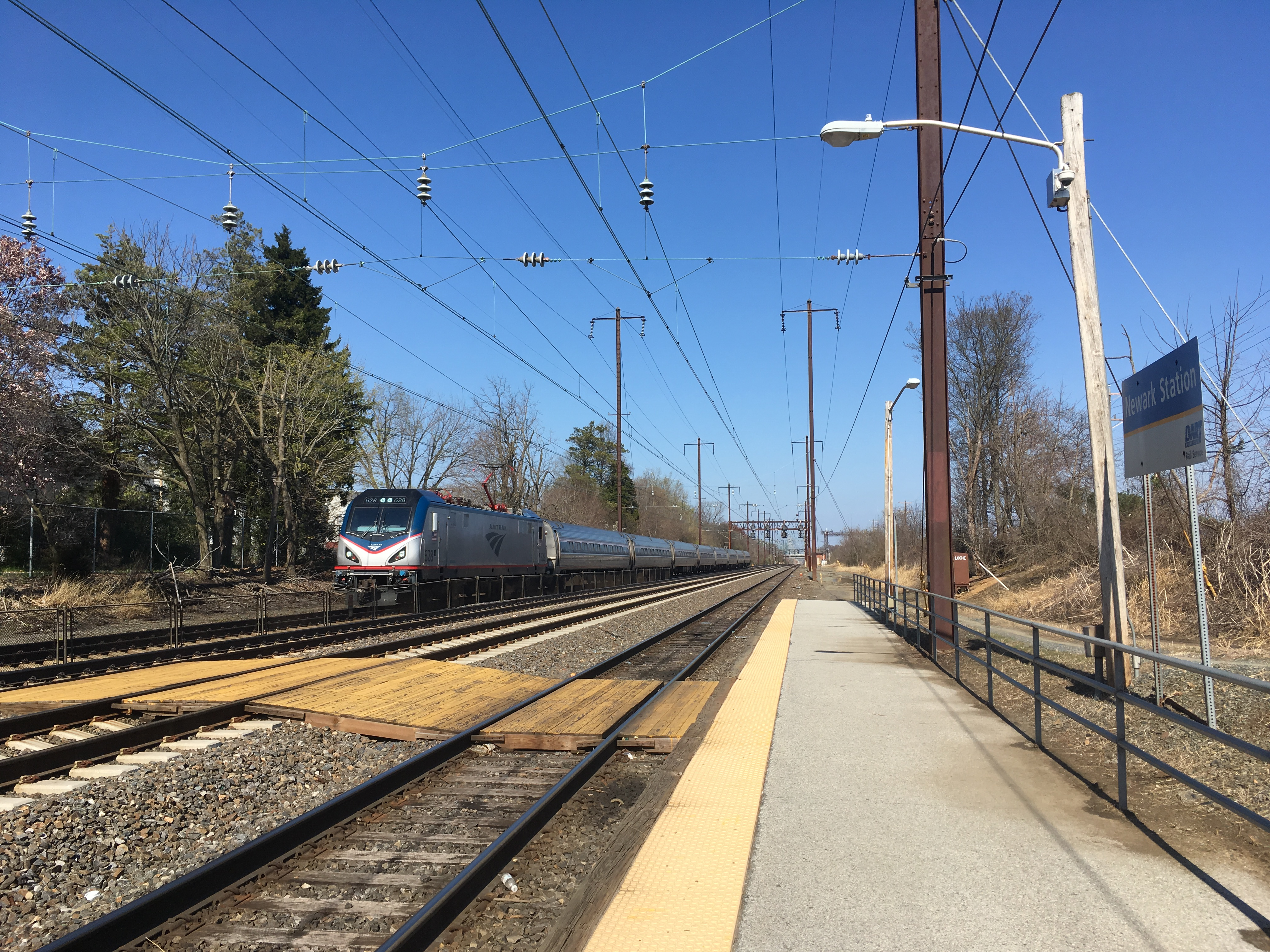 Amtrak Siemens ACS-64 628 leads a southbound Northeast Regional train bound for Richmond, Virginia through Newark station in Newark, Delaware